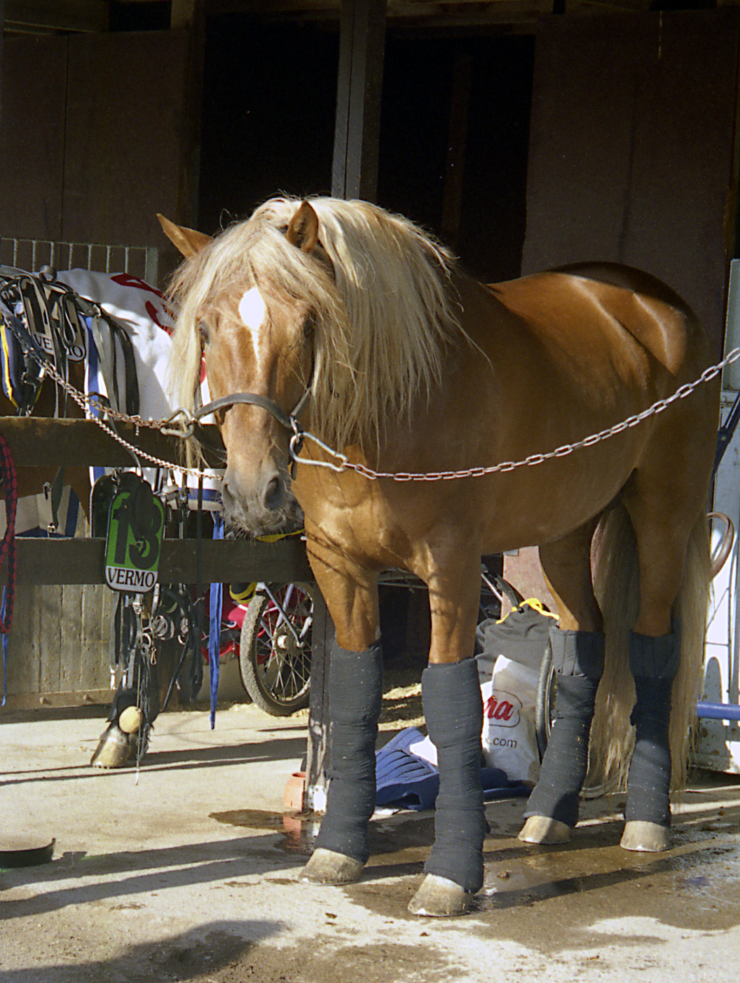 A Finnhorse stallion in a tacking stall just out of the trailer, with transportation guards still on.